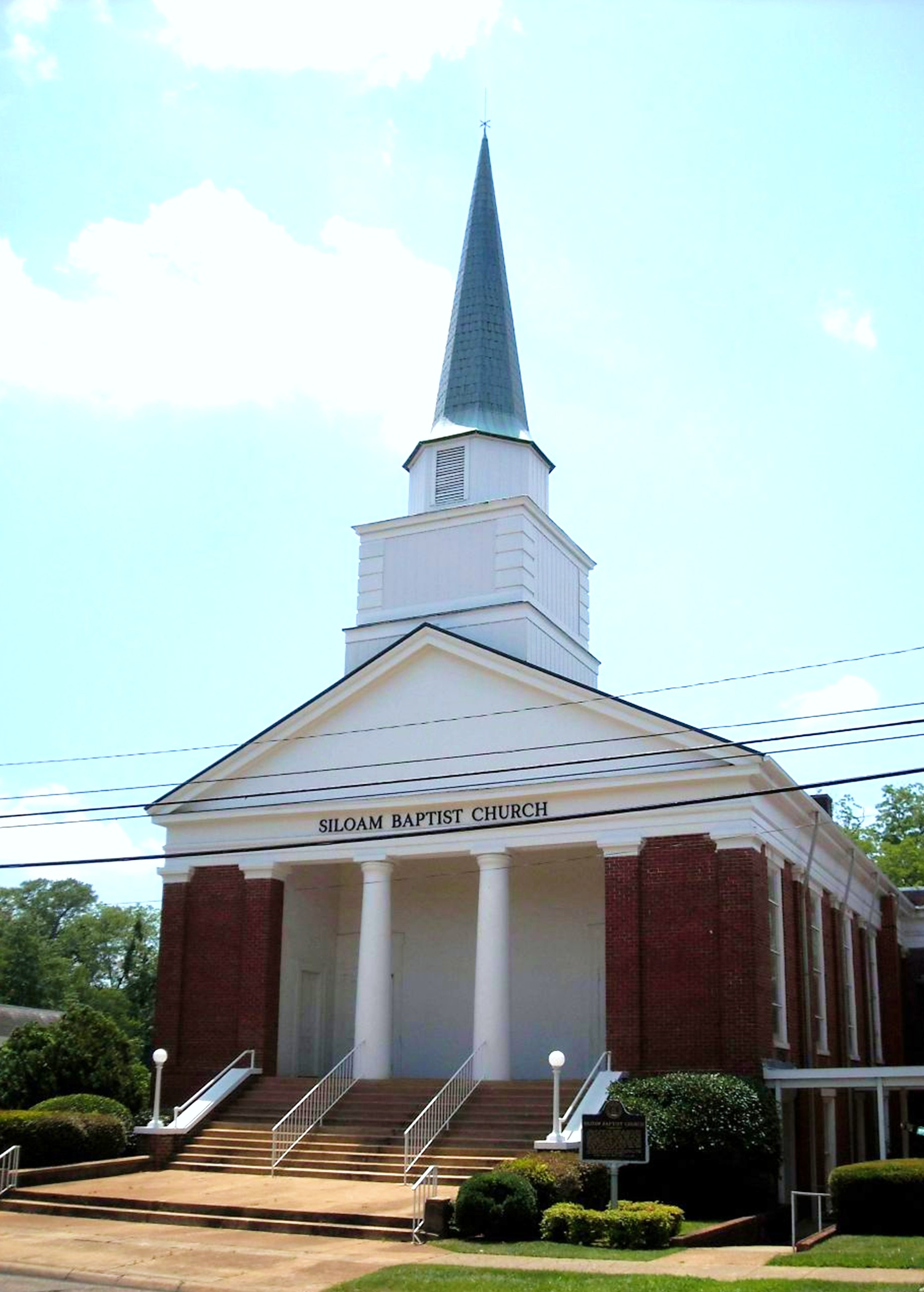 Siloam Baptist Church in Marion, Perry County, Alabama.